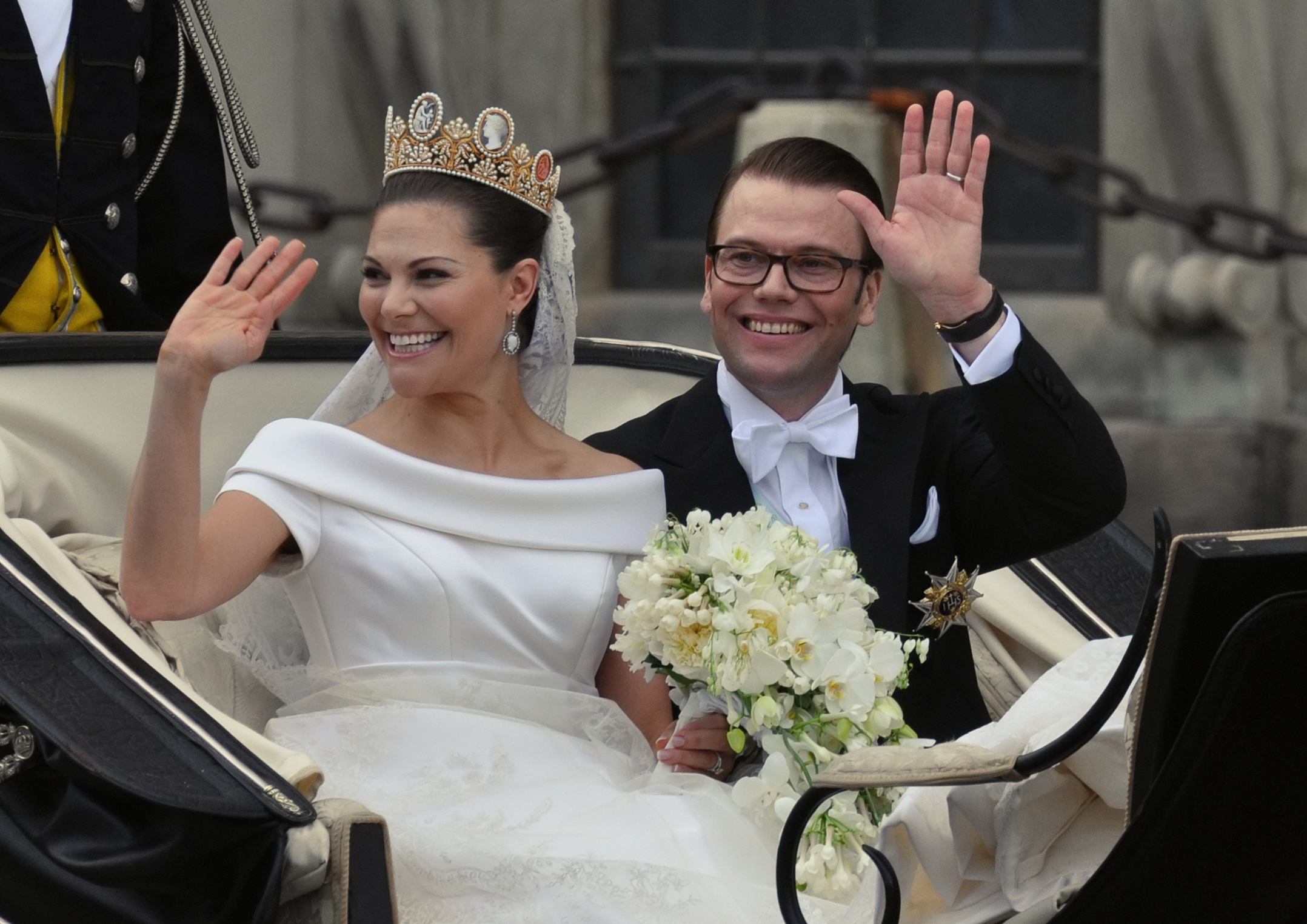 Wedding of Victoria, Crown Princess of Sweden, and Daniel Westling; Cortège at Slottsbacken